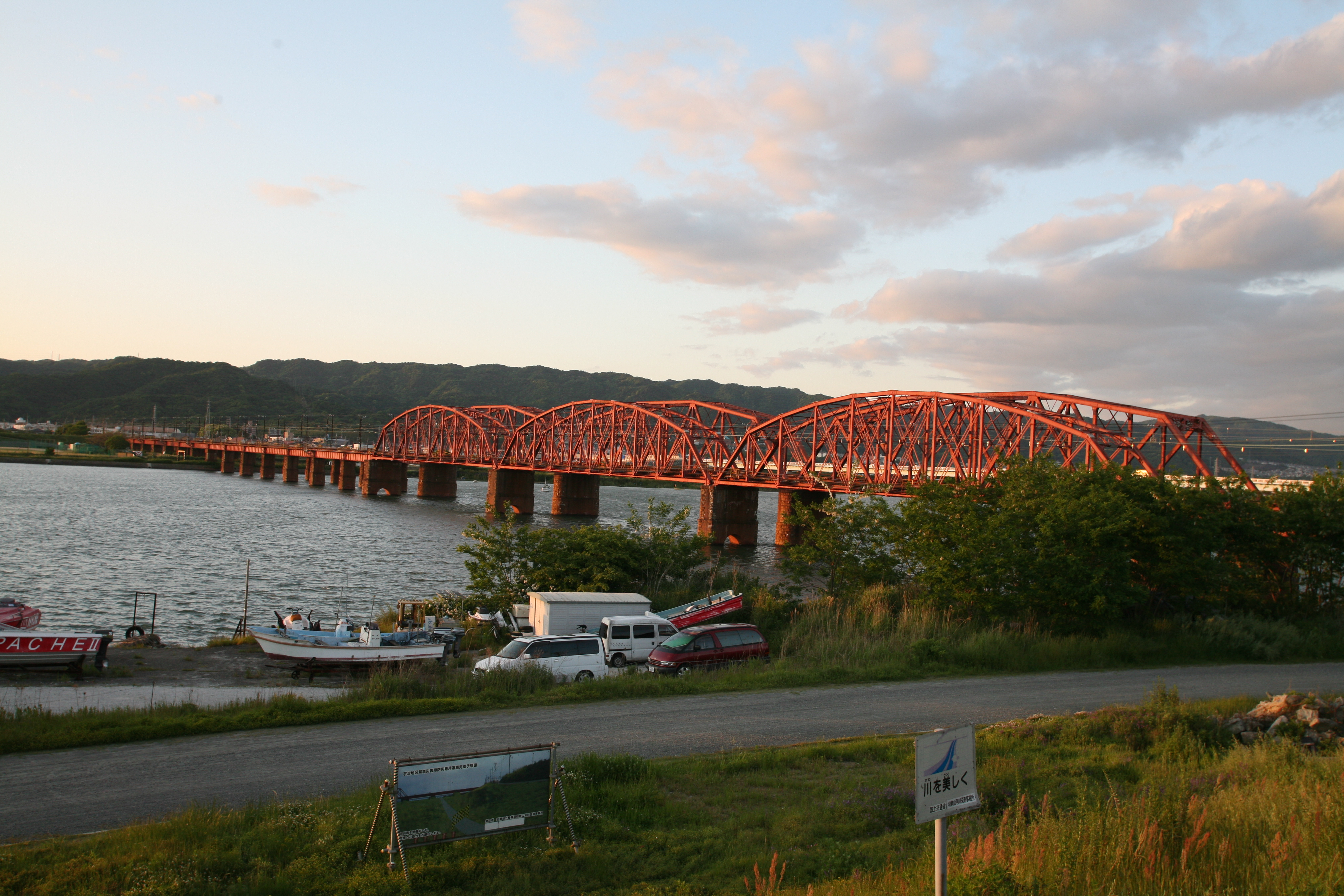 Kinokawa Bridge,Up line of Nankai_Main_Line in Wakayama Pref.,Japan.Made by American Bridge.